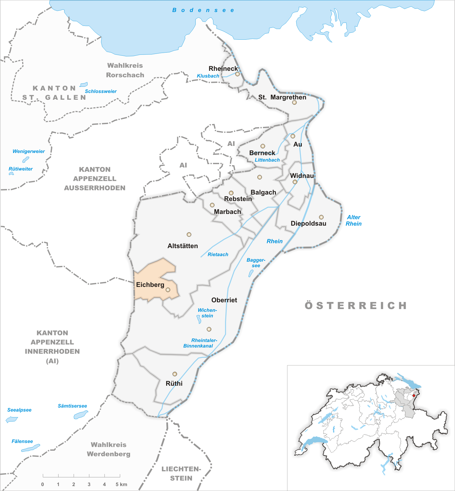 Municipality Eichberg